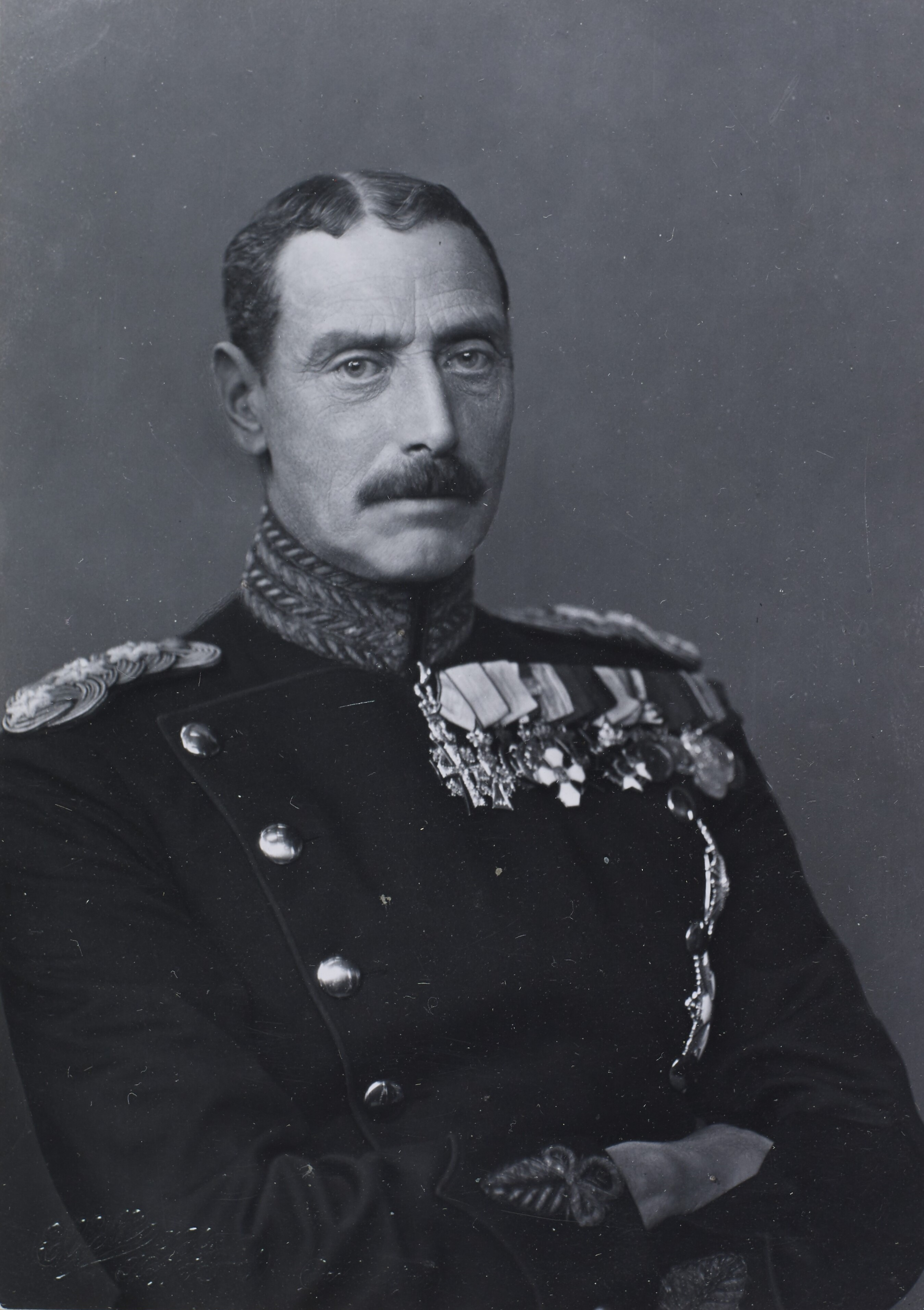 Portrait of Christian X of Denmark